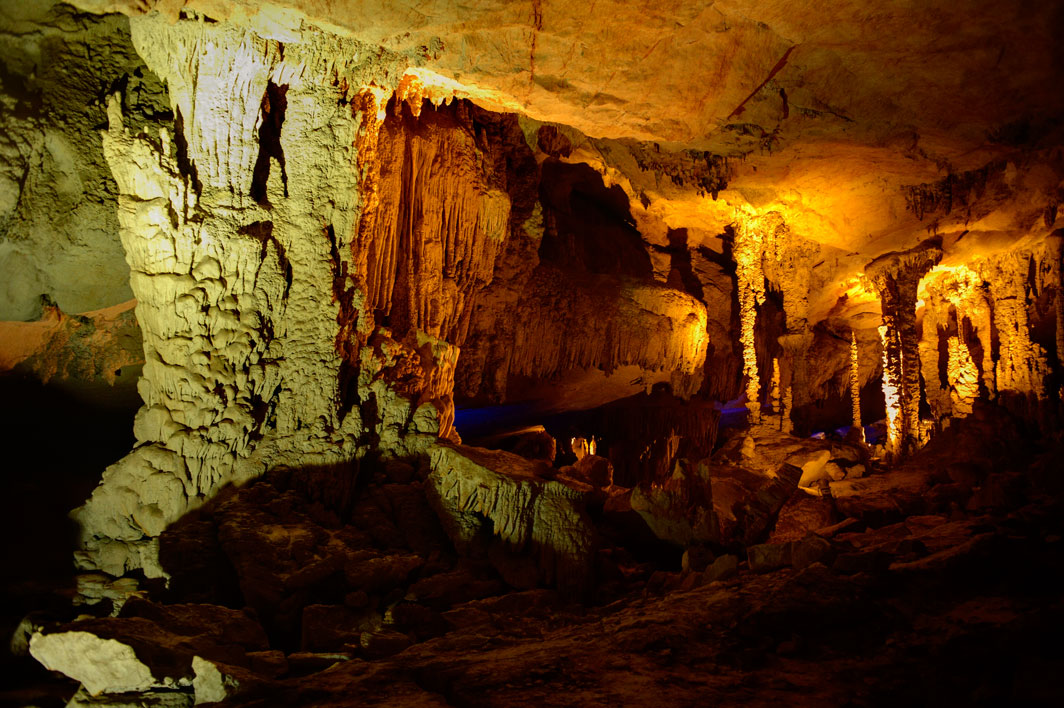 Kong Lor Caves of Laos